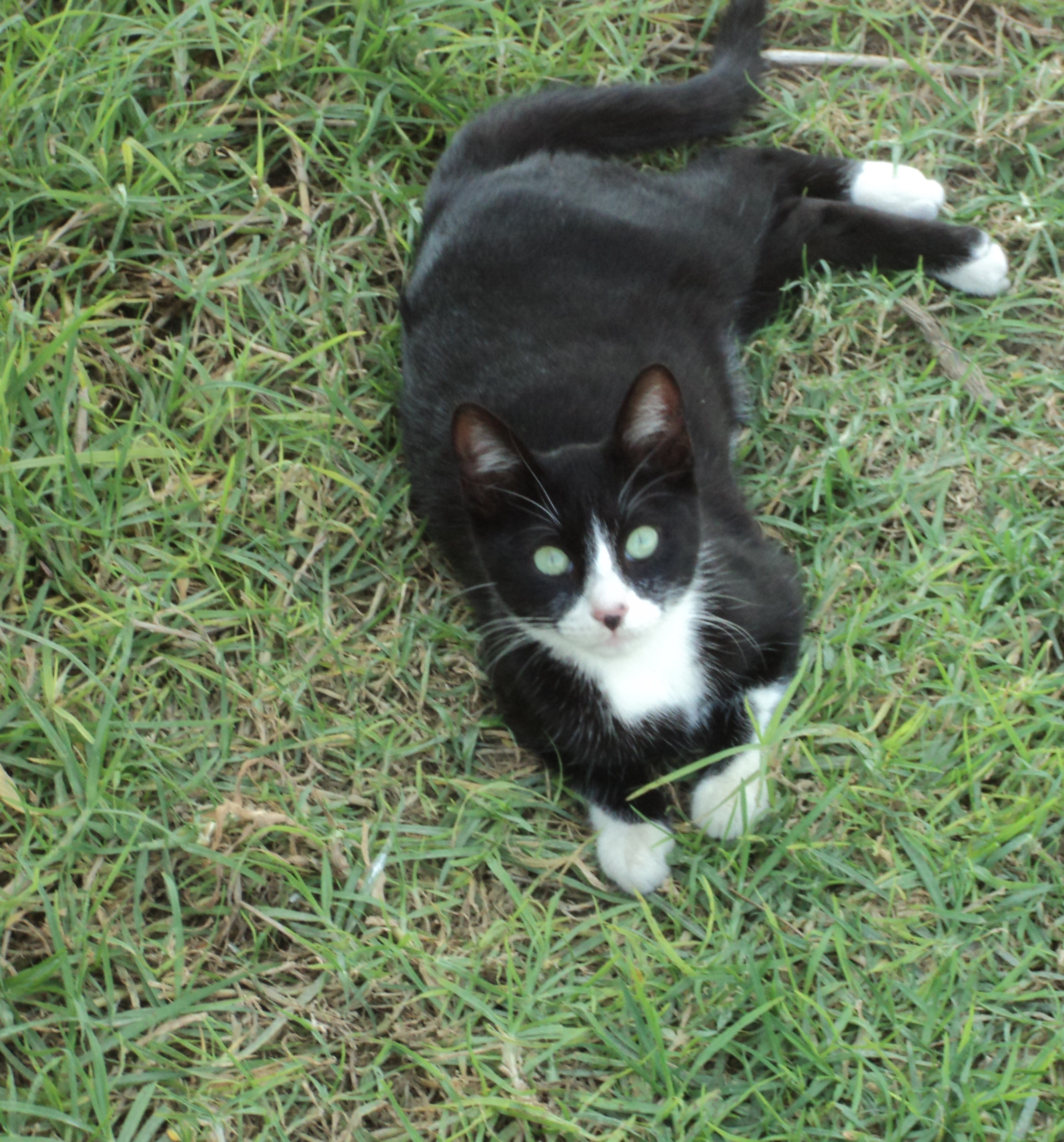 Cat about 7 months, black with white spots